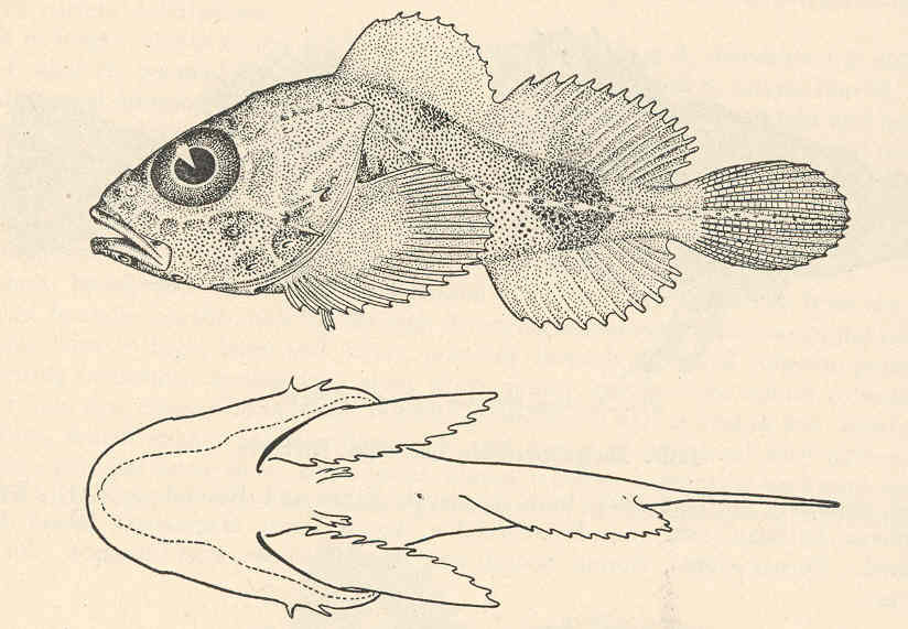 Thecopterus aleuticus Smith. Type Subject: Cottidae, Thecopterus Tag: Fish